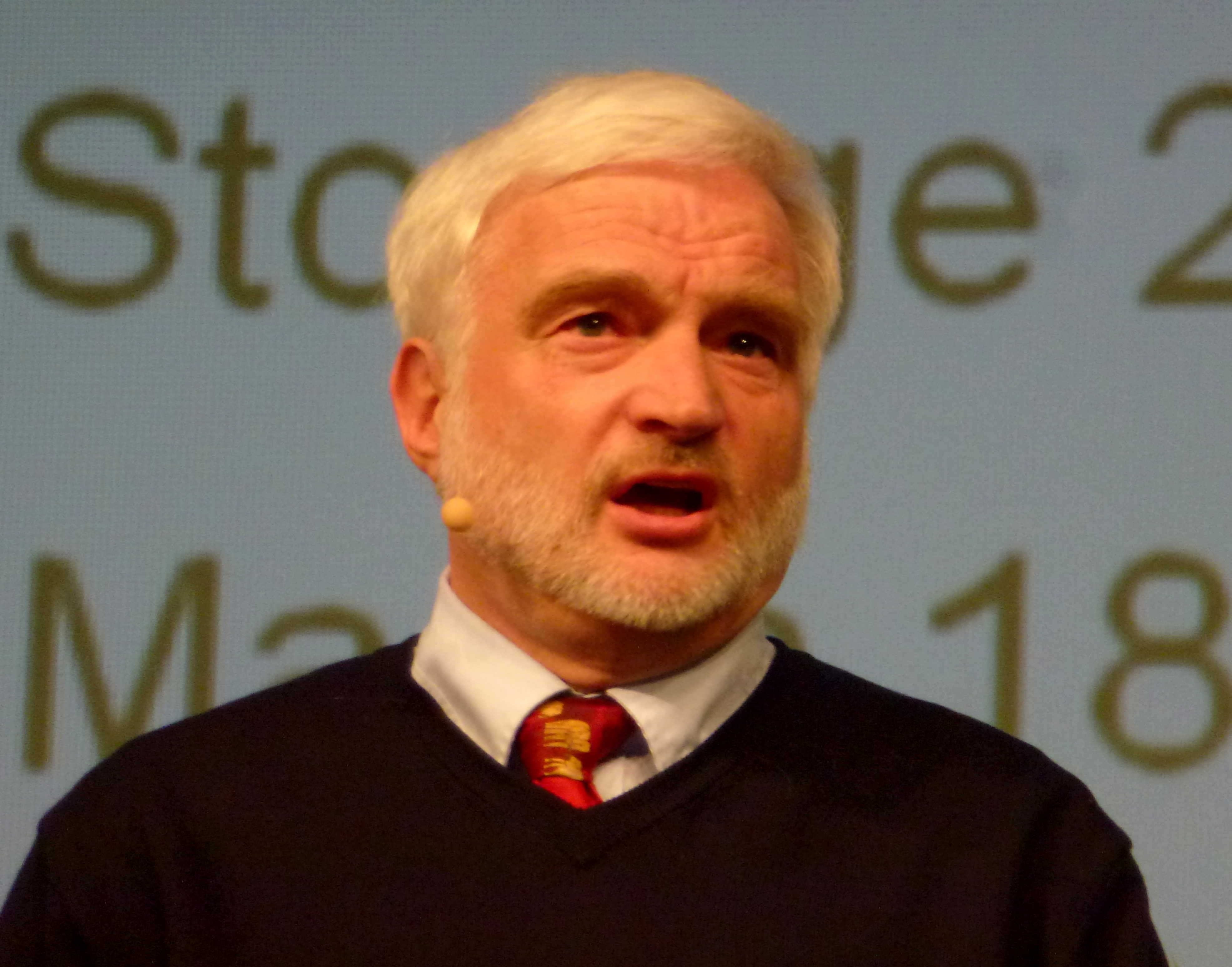 Olav Hohmeyer at the Energy Storage Summit Düsseldorf